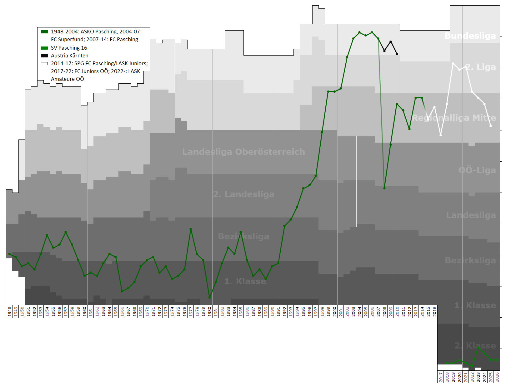 Chart of end-season table positions of Pasching and FC Juniors OÖ in the Austrian football league system. Data source: RSSSF, , regiowiki.at, ofv.at, wikipedia